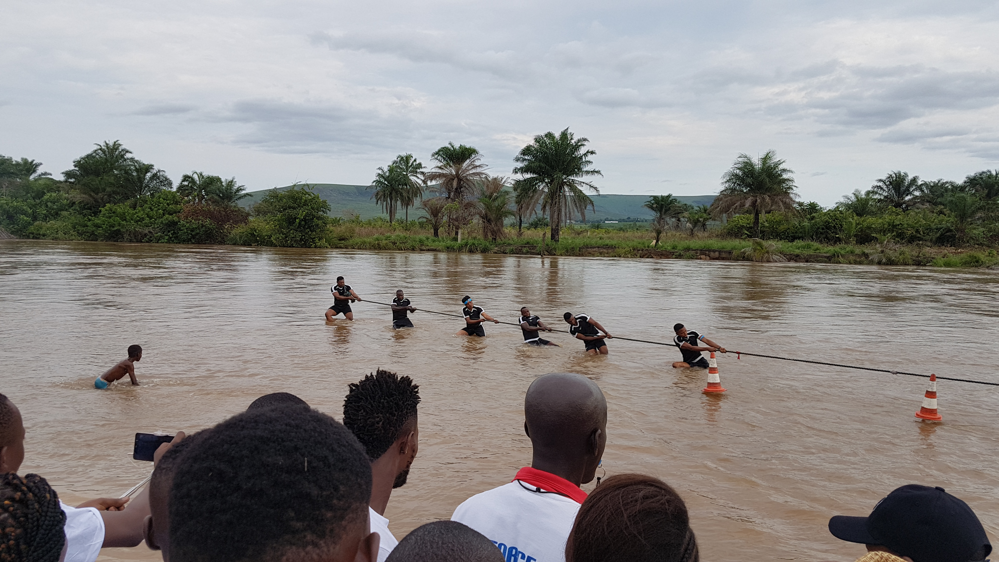 A tug of war game that took place at Picasso Beach in DRC This is an image with the theme "Play" from: Democratic Republic of the Congo